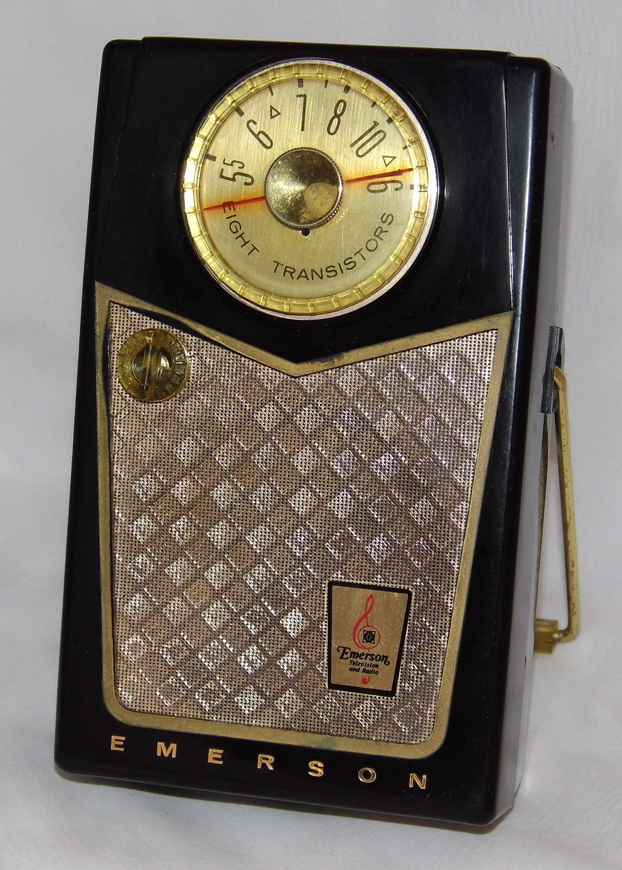 Emerson Model 888 Pioneer 8-Transistor AM Radio, Made in the USA, Circa 1958